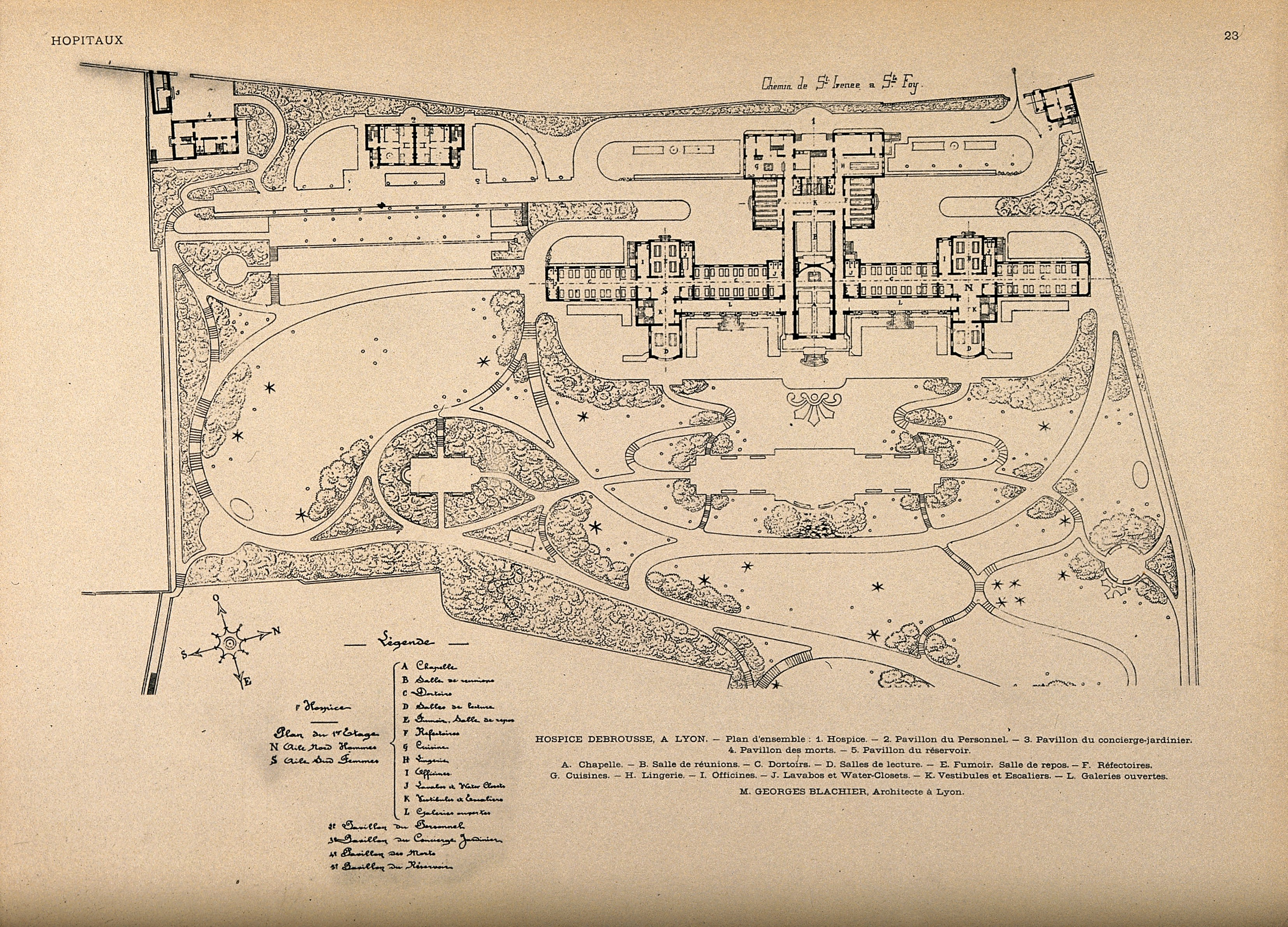 Hospice Debrousse, Lyon: details of the façade. Process print, 1913. Iconographic Collections Keywords: Gaston Lefol; Georges Blachier